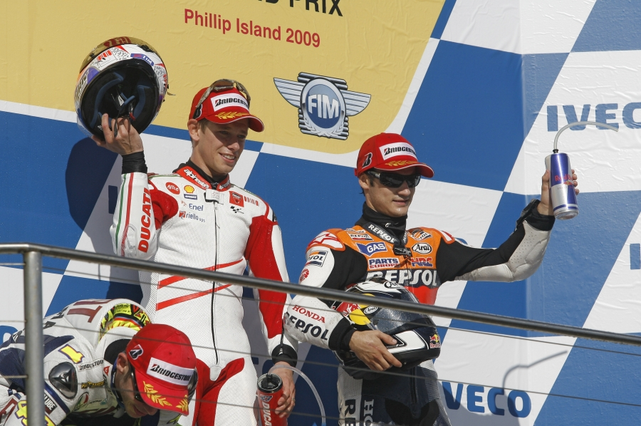 Valentino Rossi (kneeling down), Casey Stoner and Dani Pedrosa, celebrating on the podium after finishing in second, first and third position at the 2009 Australian Grand Prix.